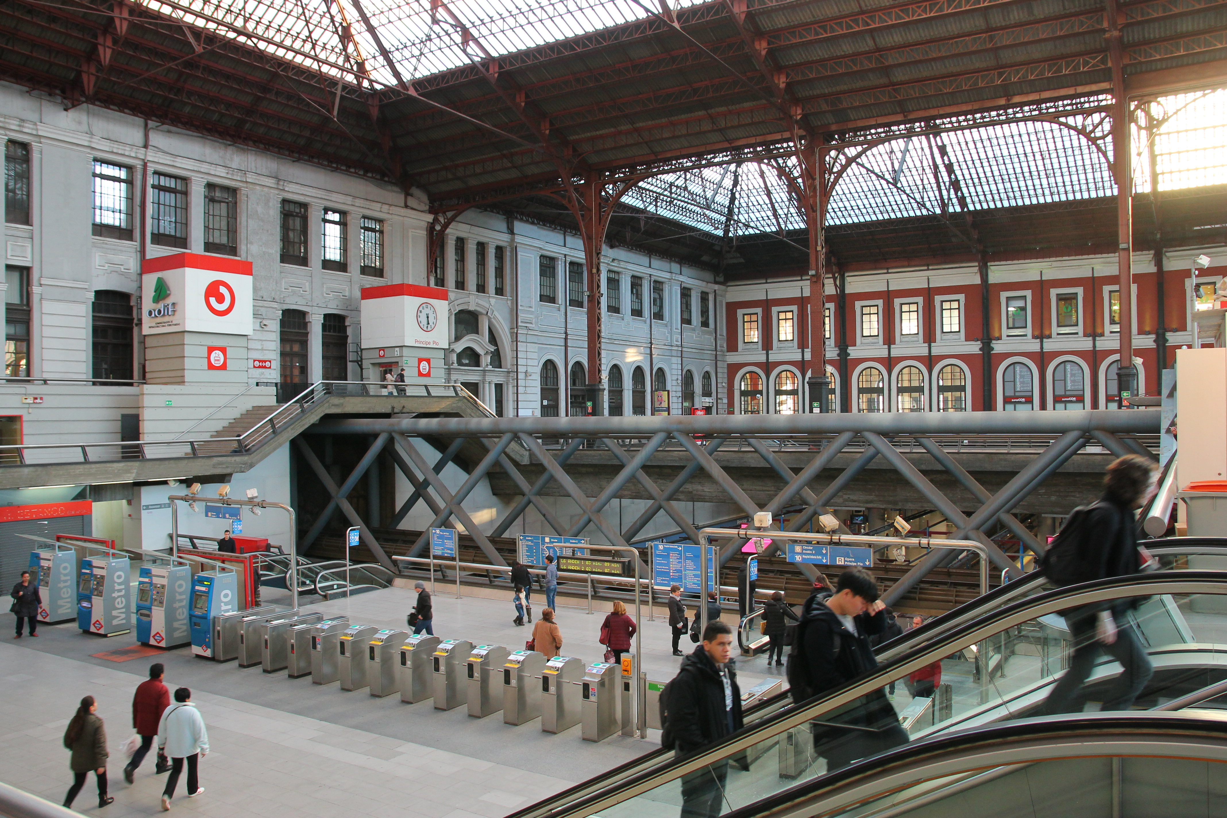 Hall of Príncipe Pío station, Madrid